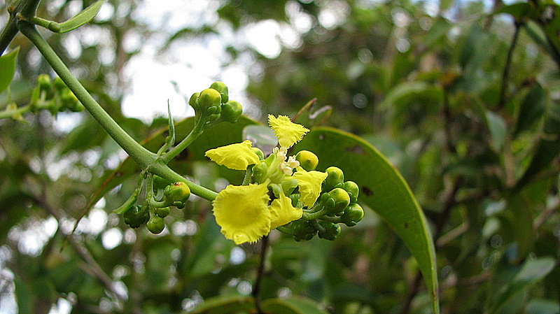 Banisteriopsis nummifera (A. Juss.) B. Gates